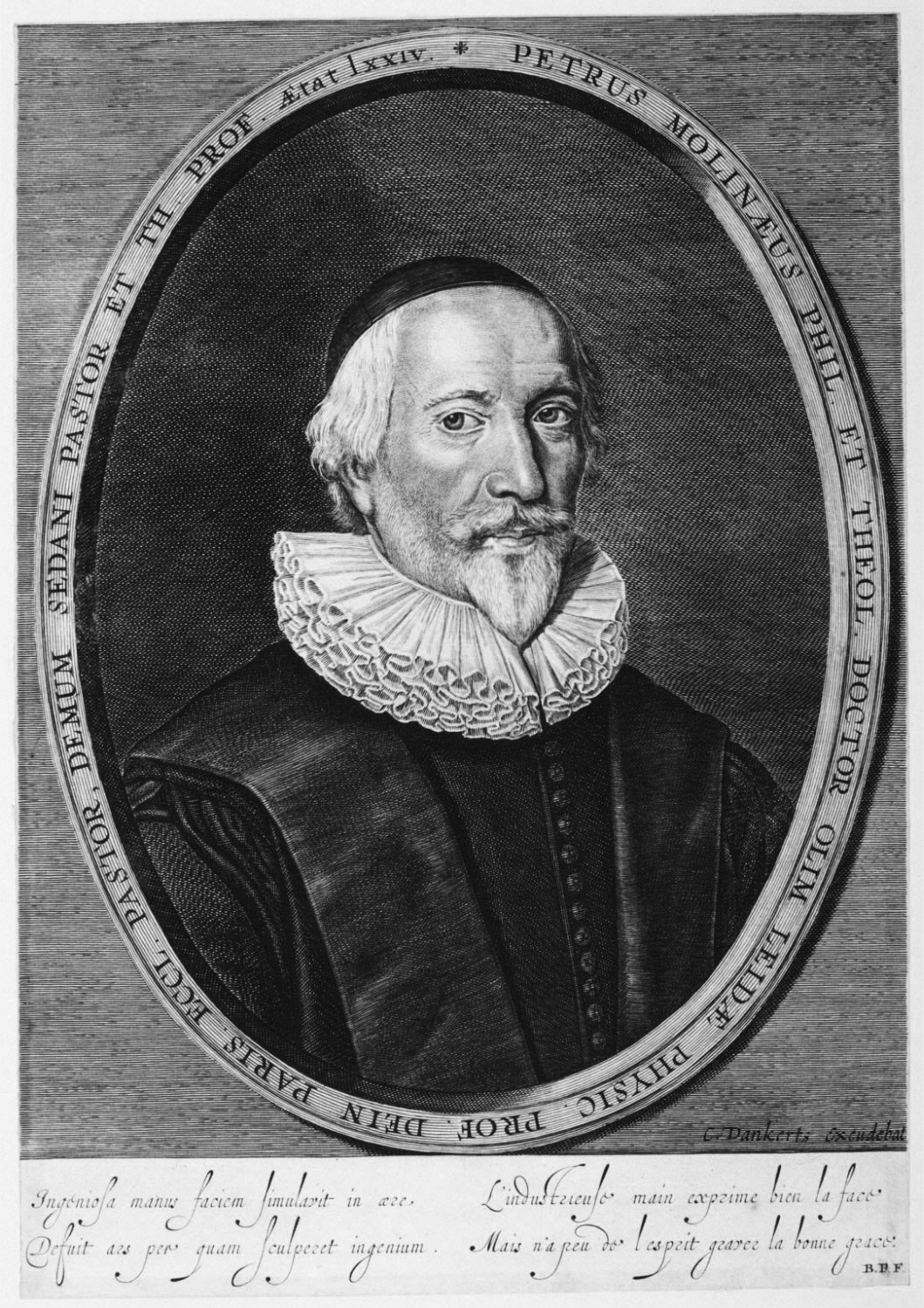 Pierre Dumoulin engraving 31.2 x 21.8 cm